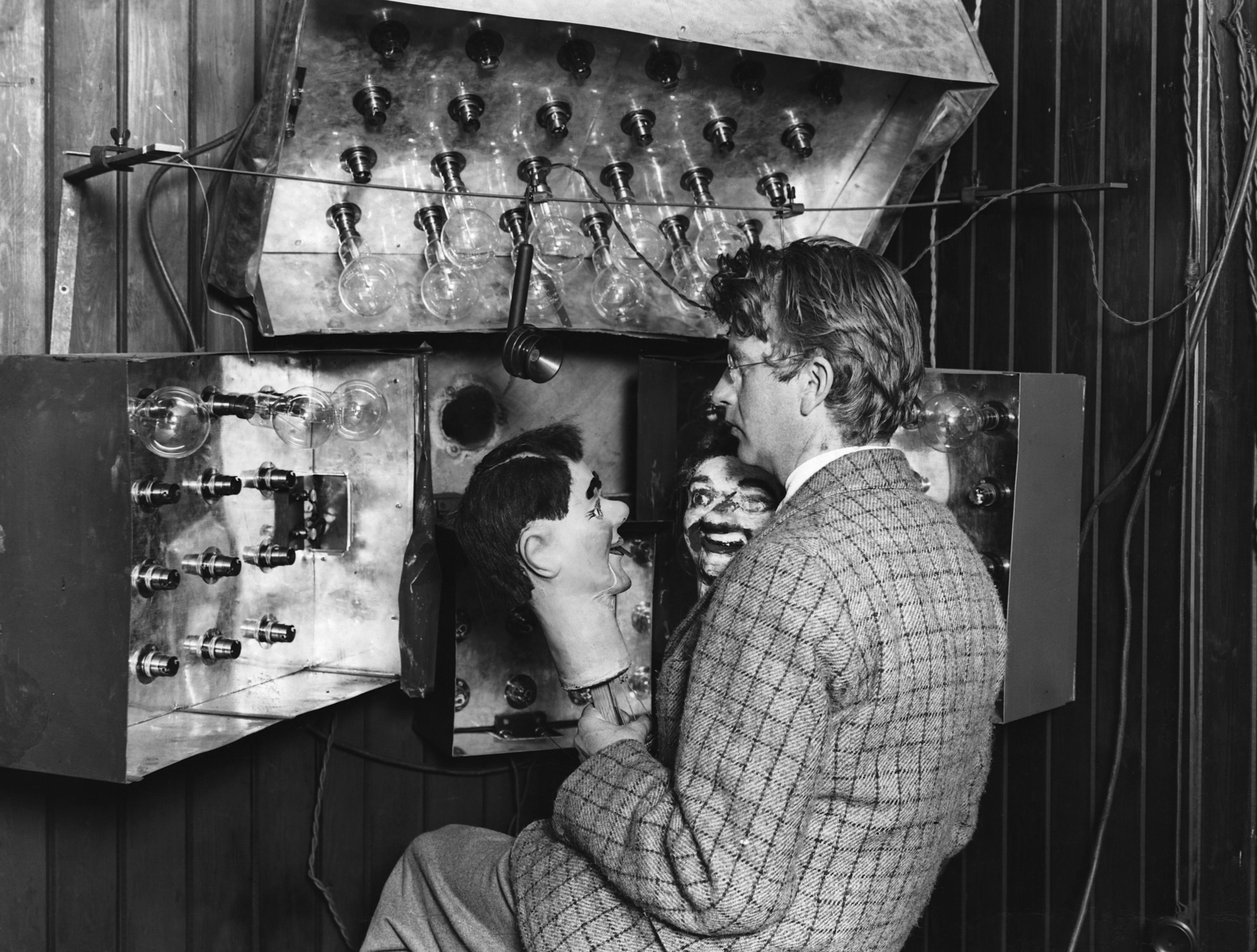 British inventor John Logie Baird and his first publicly demonstrated television system, with which he transmitted moving pictures March 25, 1925 at the London department store Selfridges. This was one of the first demonstrations of television technology. The selenium photoelectric tubes he used had such low sensitivity that human faces could not be televised due to their low contrast. So Baird used the two articulated ventriloquist's dummies shown, "James" and "Stooky Bill" (right), whose painted faces had higher contrast, and televised them speaking and moving. The banks of bright light bulbs were required to illuminate the faces enough to produce an image. His mechanical televisor system had a large spinning disk with 30 lenses mounted in it. As each lens passed across the subject it generated a scan line of the image. At the receiver a similar spinning disk with holes recreated the image. The image thus had a resolution of 30 scan lines, just enough to recognize a face. By the next year Baird was televising real human faces. Caption: BEFORE THE FOOTLIGHTS OF THE TELEVISOR TRANSMITTER - The two ventriloquist's dolls, James and Bill - "the first television stars" - are held by Baird in front of the microphone and the mechanical eye that sees and hears everything that goes on in front of it. Alterations to image: Rotated image a few degrees to justify it.